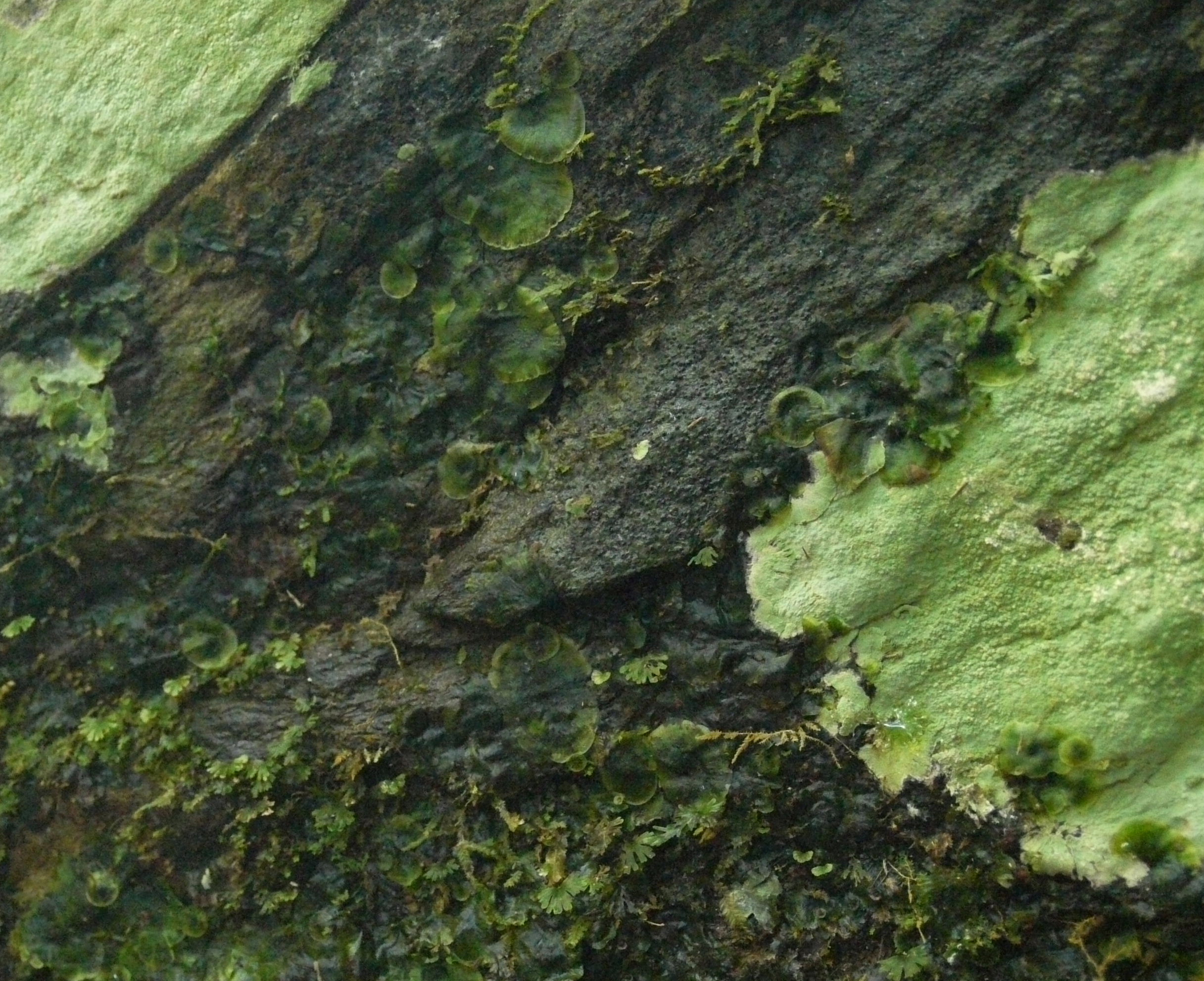 Trichomanes tahitiense(Hymenophyllaceae)